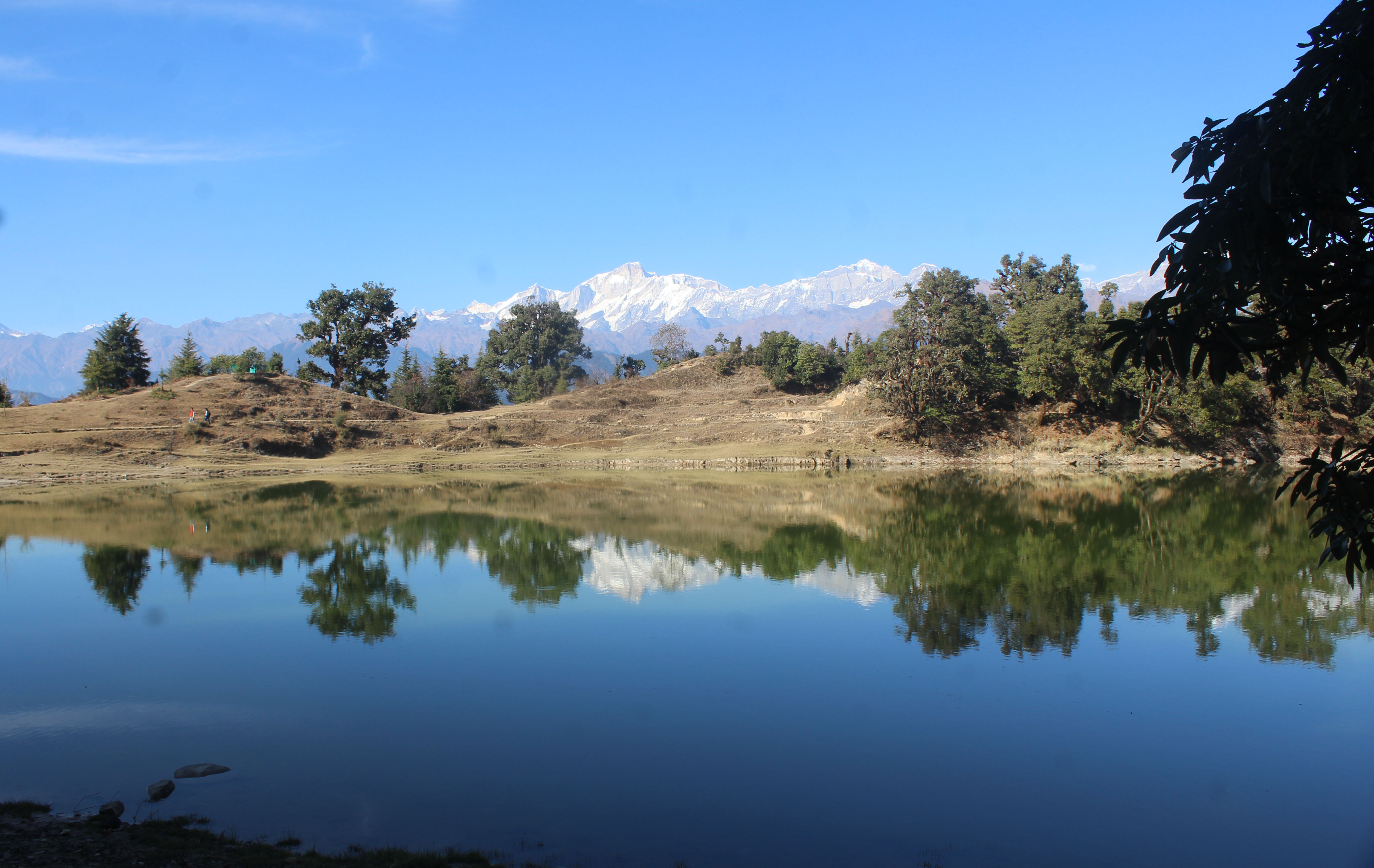 Deoriatal is a lake located in Rudraprayag Uttrakhand. Perched approx 2.5 km above sea level.